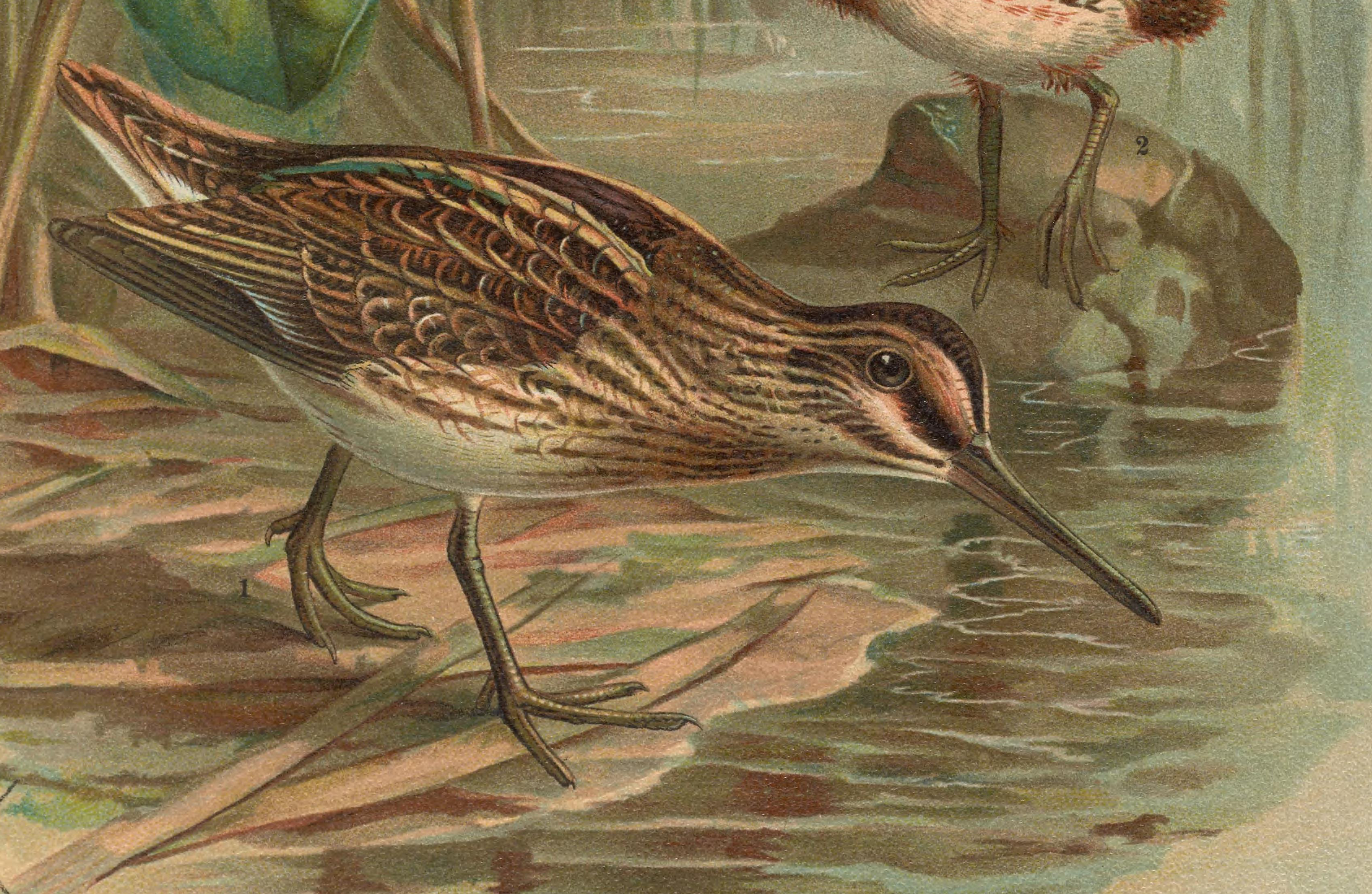 Jack Snipe